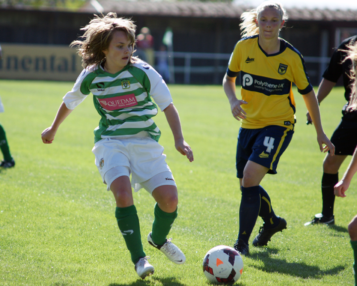 Taken by myself at a recent WSL2 match between Yeovil Town Ladies & Oxford United ladies